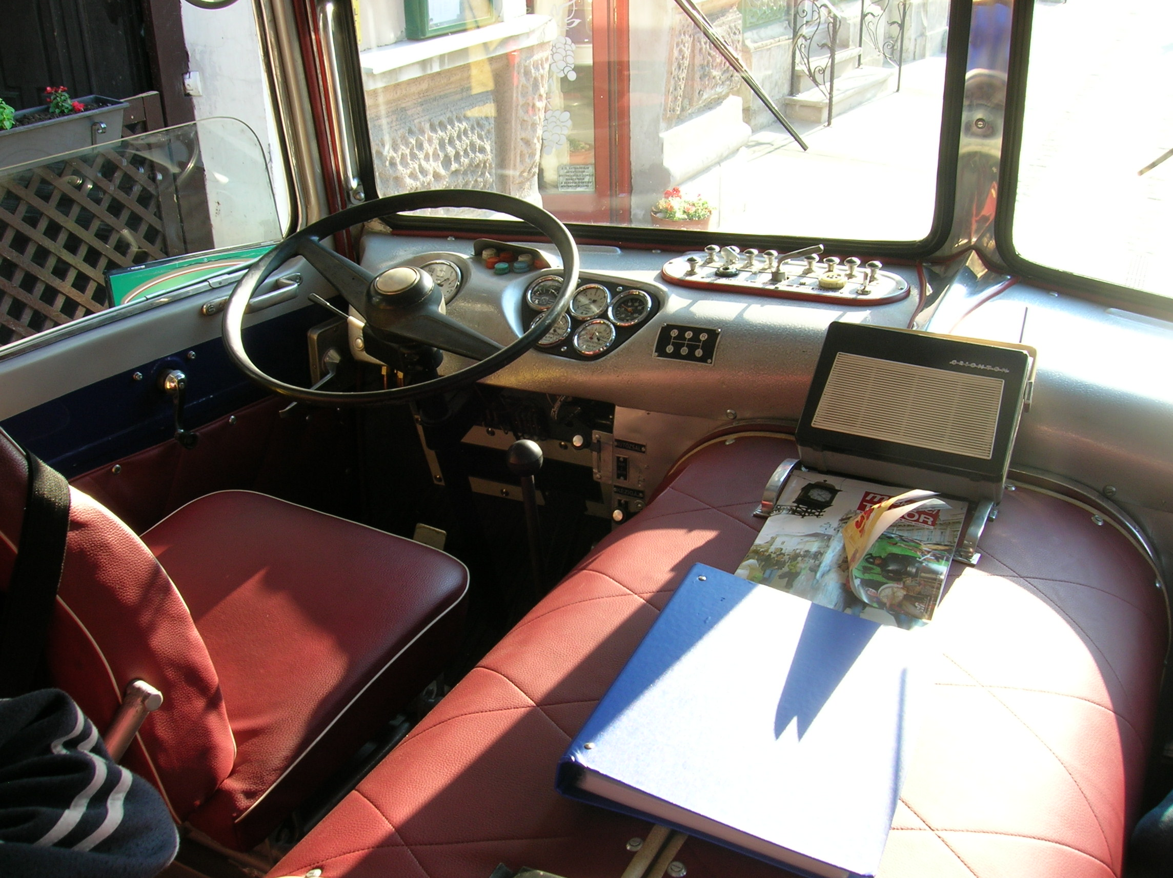 Driver's seat, Ikarus 31. Restored museum piece, built in 1959. Miskolc, Hungary.